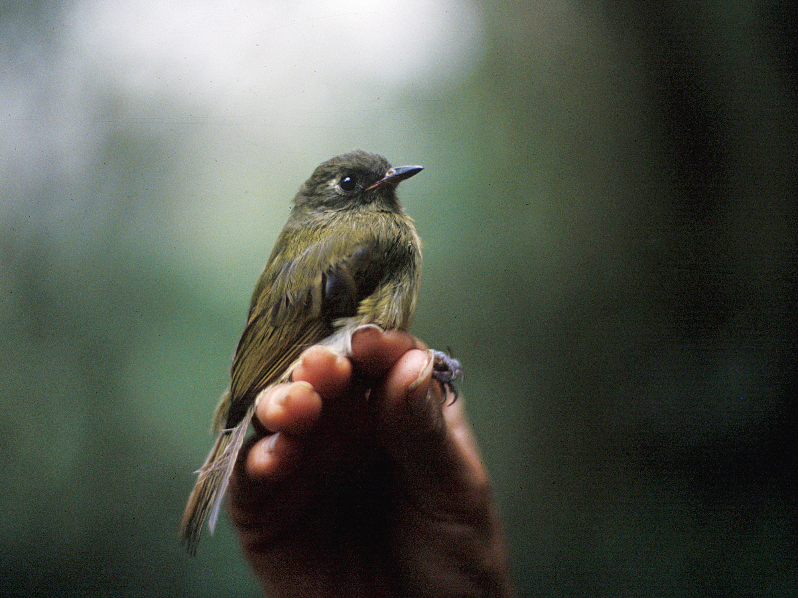 Streak-necked Flycatcher (Mionectes striaticollis) from Ecuador. Picture from the NBII Image Gallery.